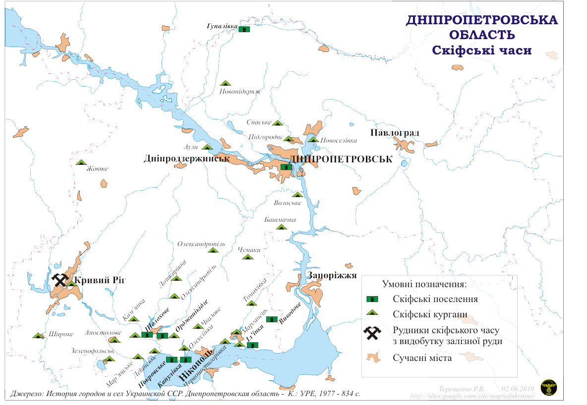 Dnipropetrovsk region. Archaeological monuments of the Scythian period.